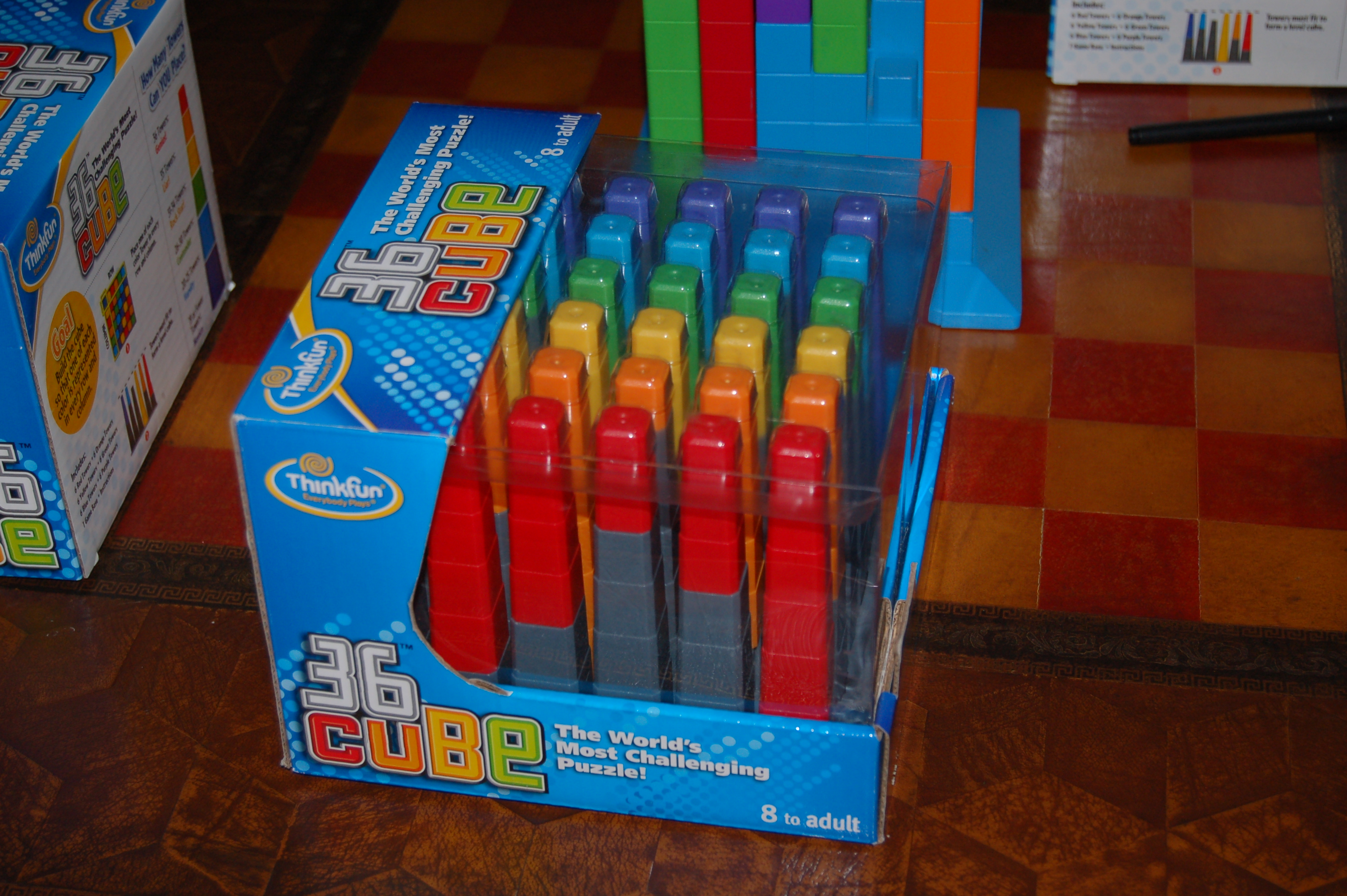 36 Cube in package